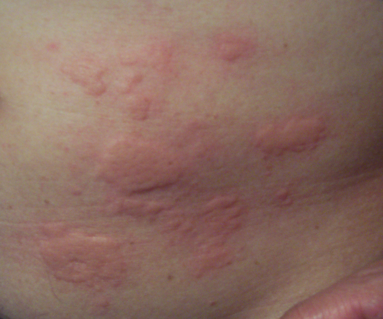 Rash caused by an unusual reaction. Taken by Enoch Lau on 20 December 2004. As a courtesy, please let me know if you alter this image or this image description page. Original filename was 100_3874.JPG.